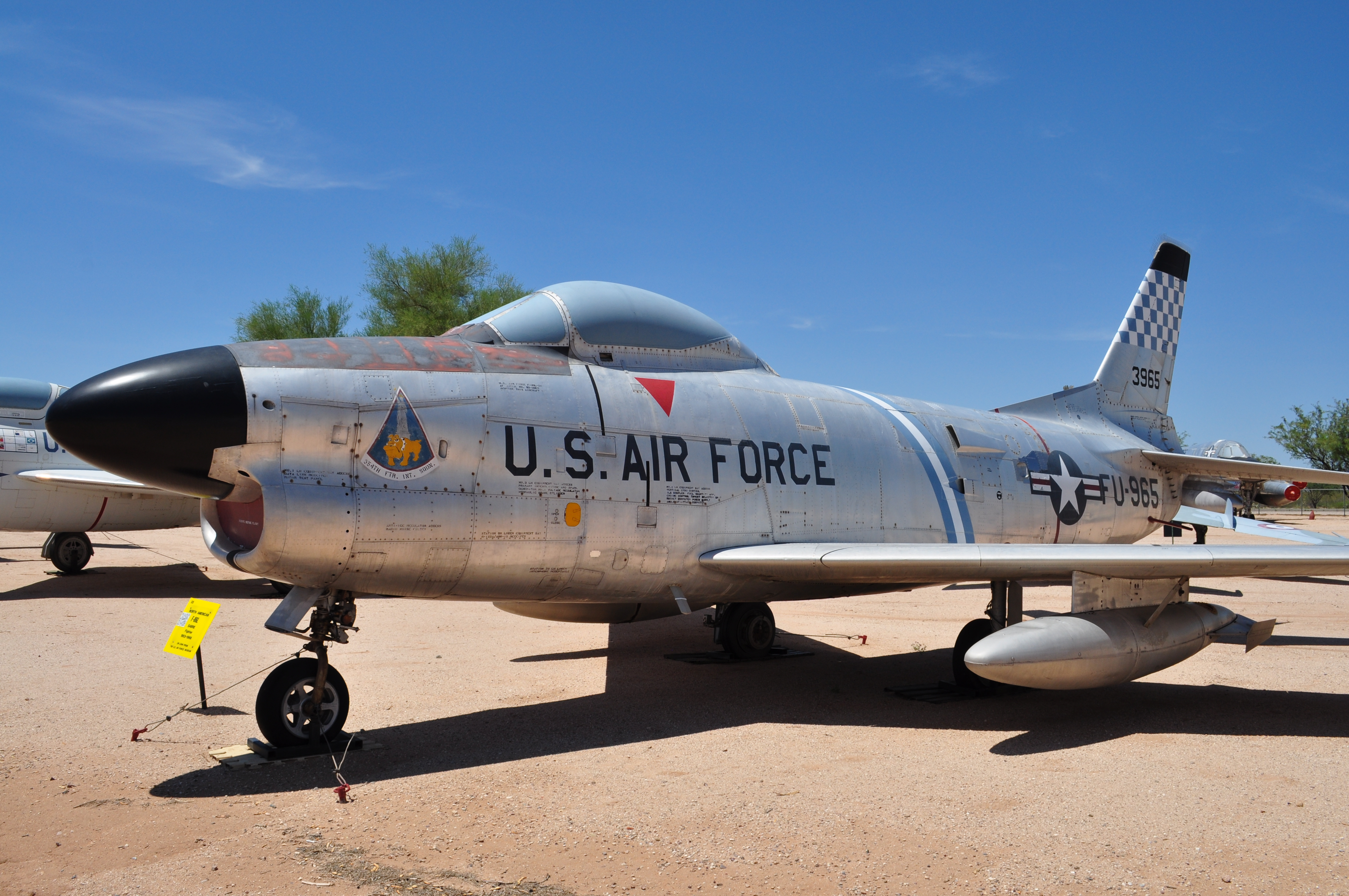 USAF PIMA. The aircraft is in the markings of the 354th Fighter-Interceptor Squadron